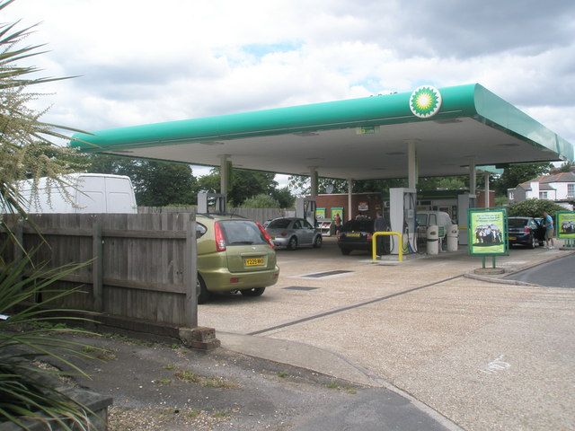 BP garage in Brockhurst Road